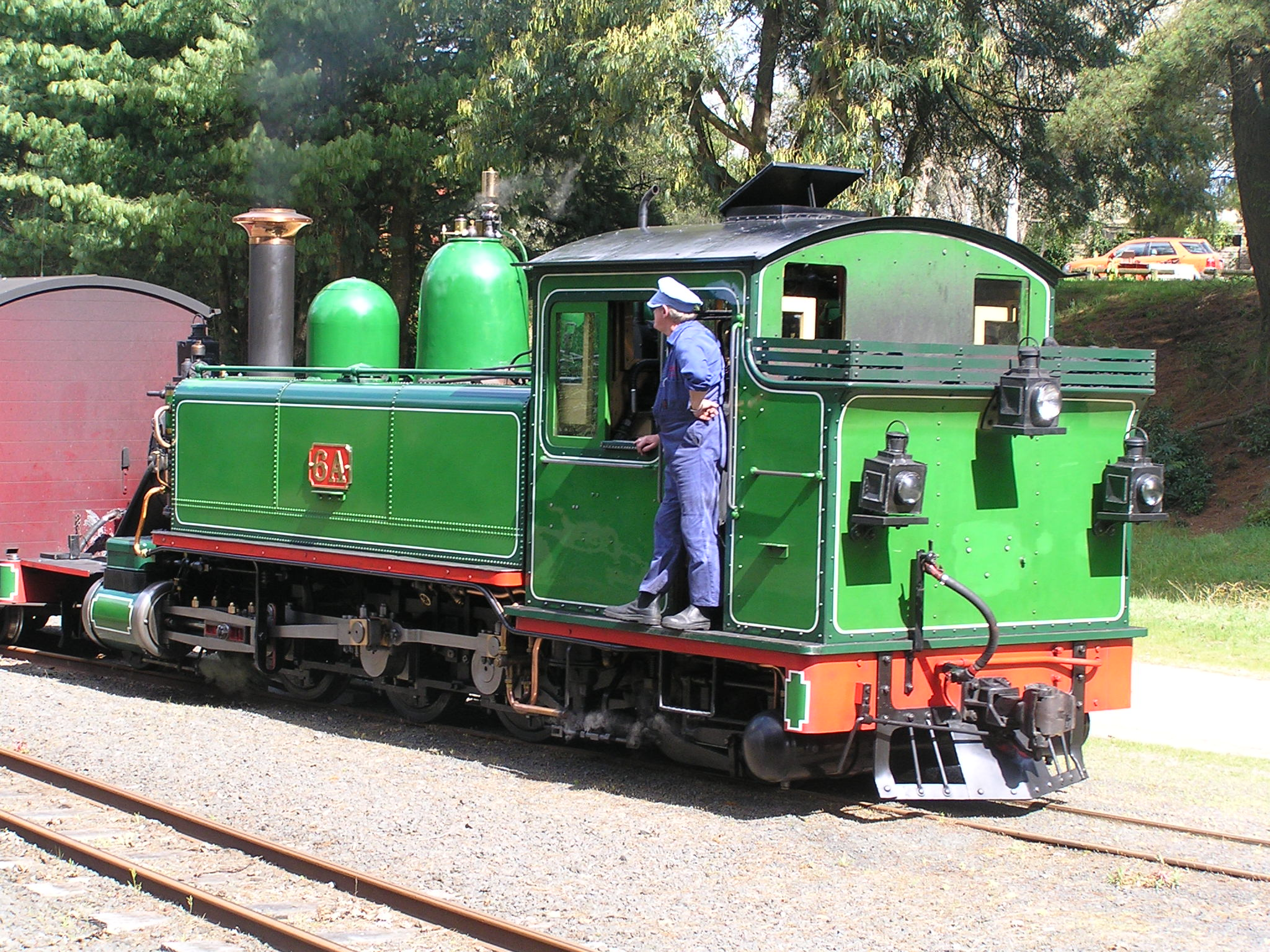 NA class loco